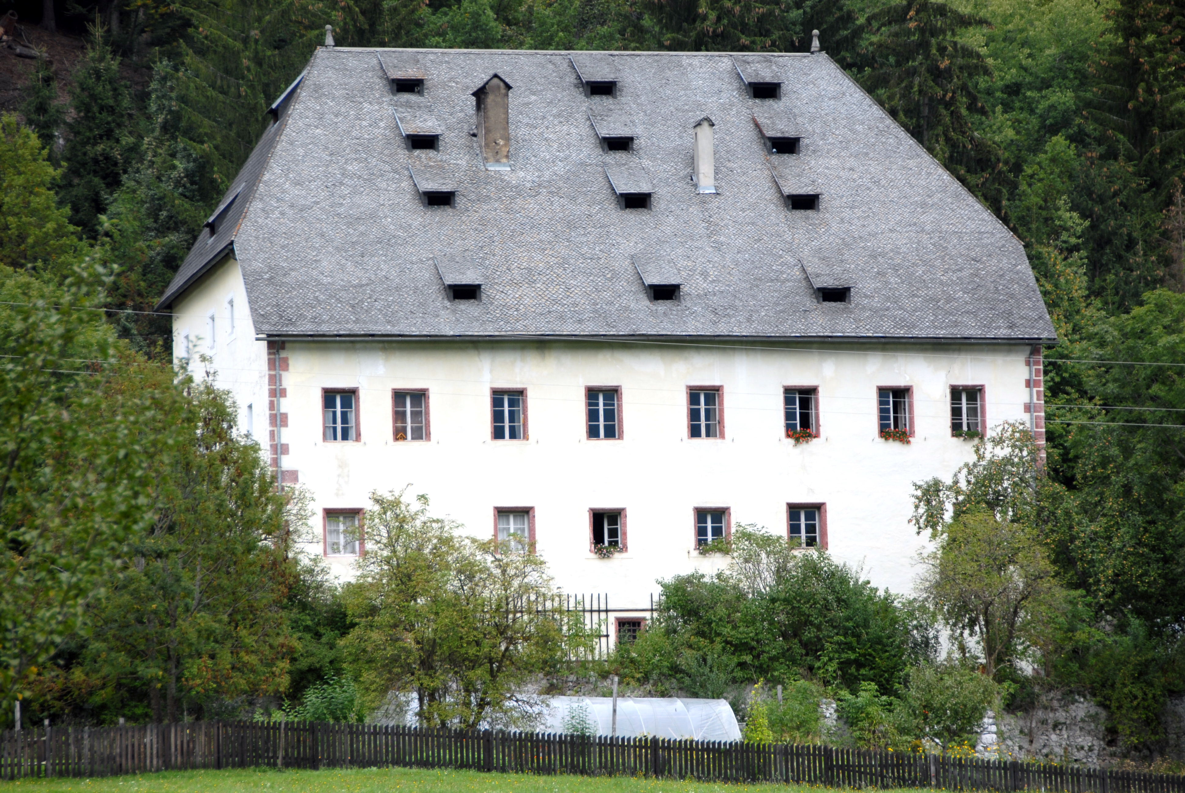 Castle Mandorf at Mandorf, municipality Koetschach-Mauthen, district Hermagor, Carinthia / Austria / EU